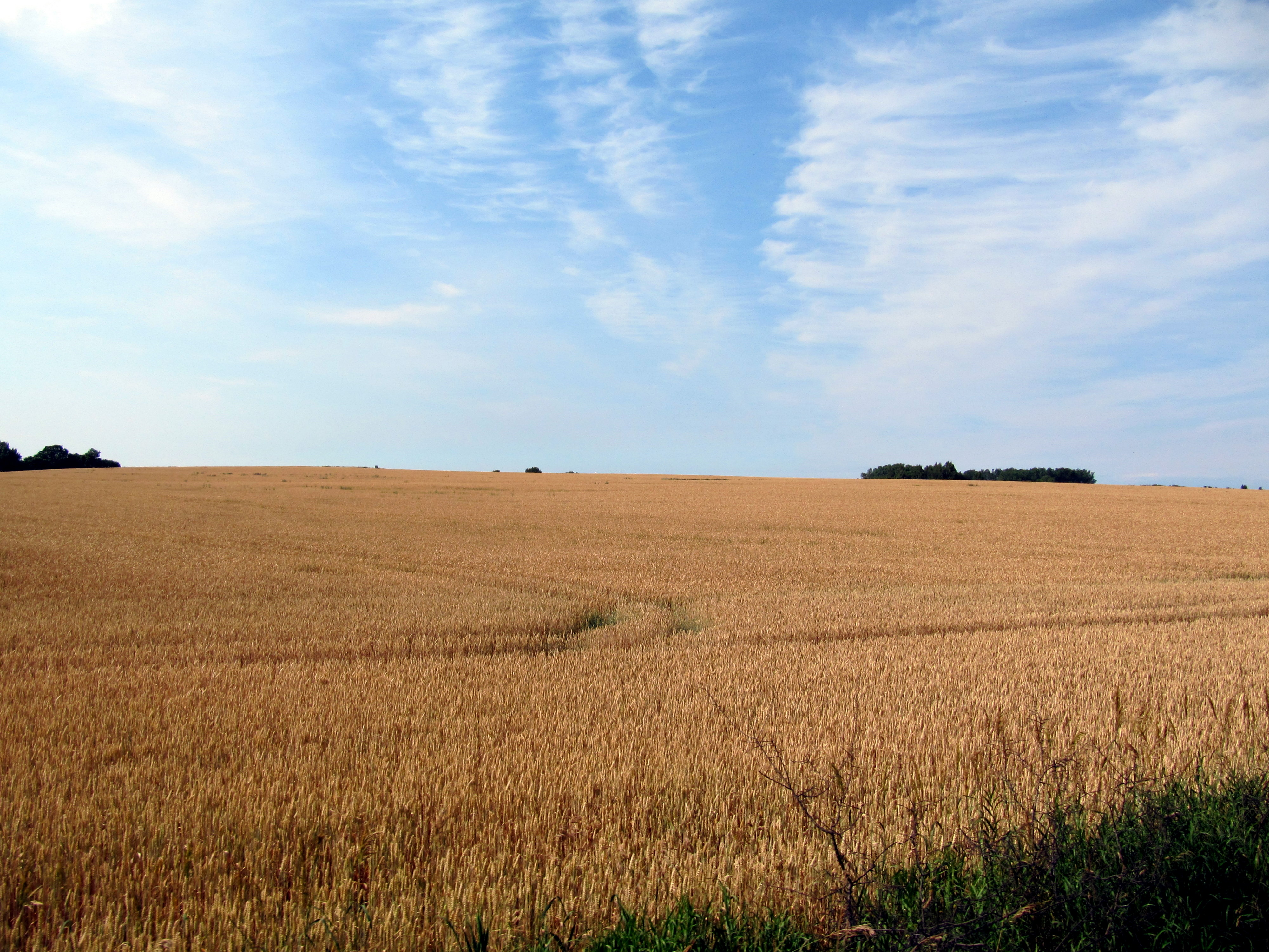 Fields in Mecklenburg-Vorpommern, Germany